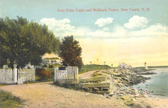 Fort Point Light and Walbach Tower, New Castle, New Hampshire